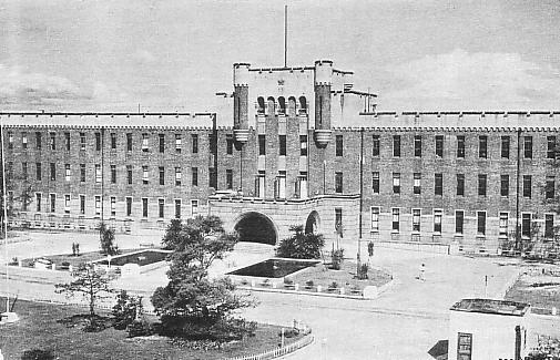 Osaka City Municipal Police Building